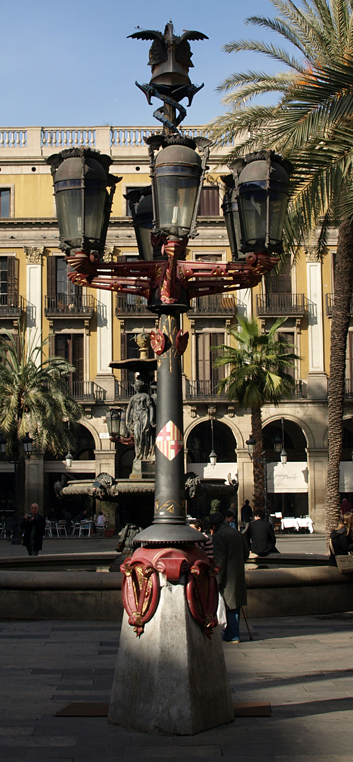 Fanals - Catalan Modernisme (Antoni Gaudí, 1878)